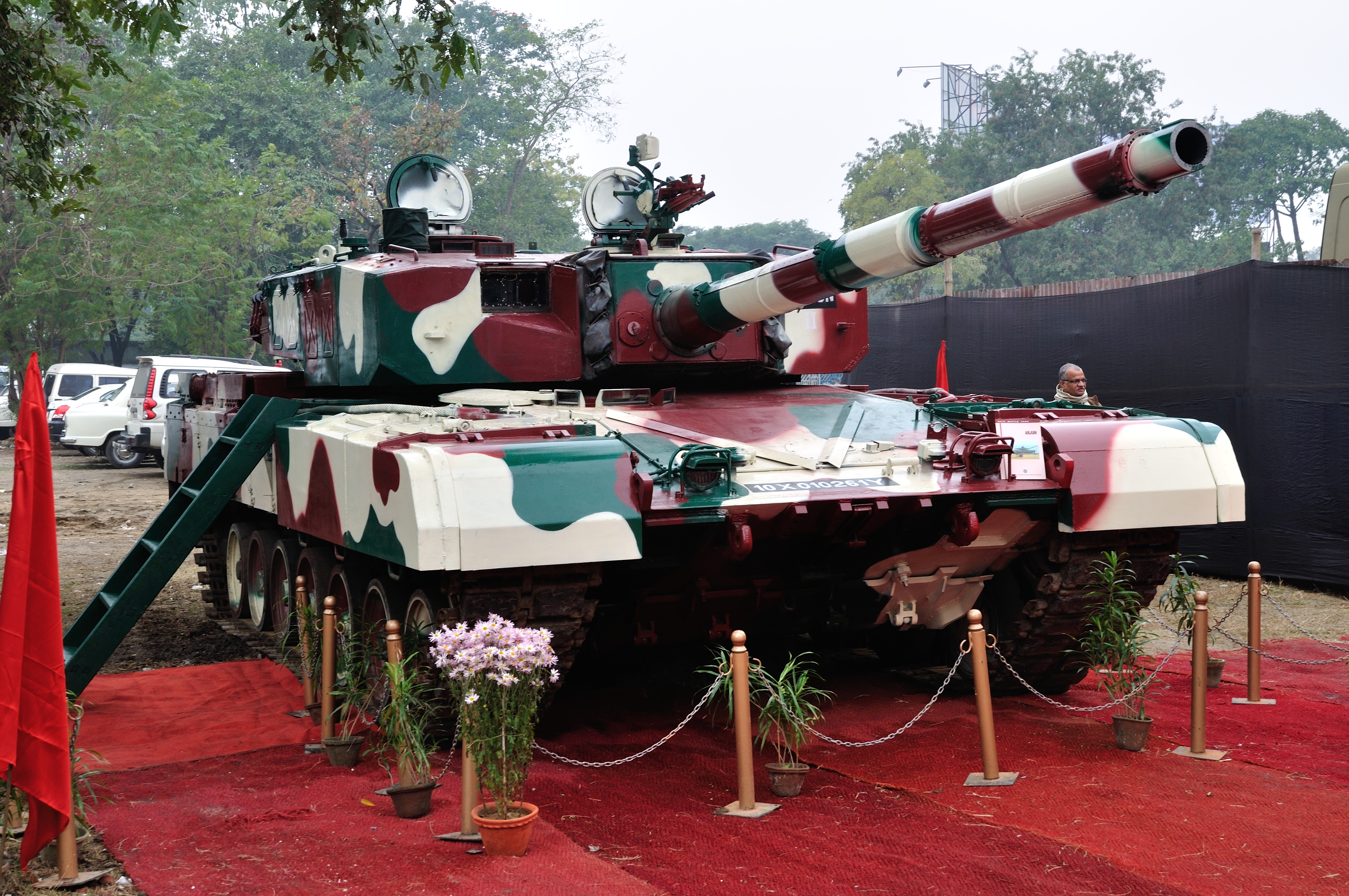 Arjun - main battle tank has been developed by the Indian 'Defence Research and Development Organisation' or DRDO. It is shown at the 'Pride of India' exhibition, organised by the 'Indian Science Congress Association' on the occasion of the '100th Indian Science Congress' in Kolkata from 3rd to 7th january, 2013.